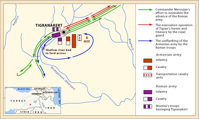 Battle of Tigranakert, 69 B.C.